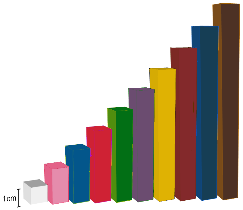 Númeric Rods according Maria Antònia Canals colouring